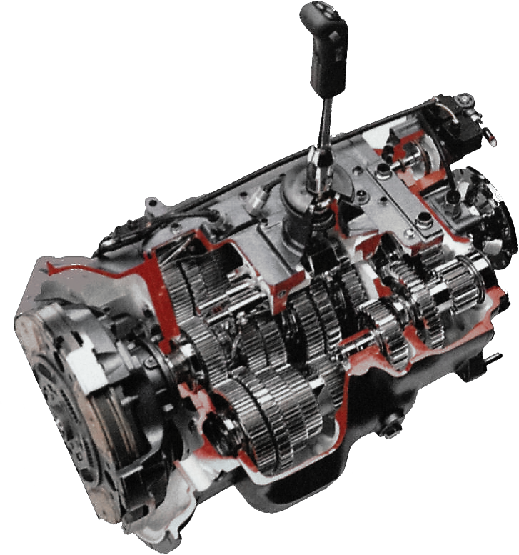 Color hi-lites cut-away view of a commercial motor vehicle non-synchronous transmission from the Meritor "Drivetrain" product line